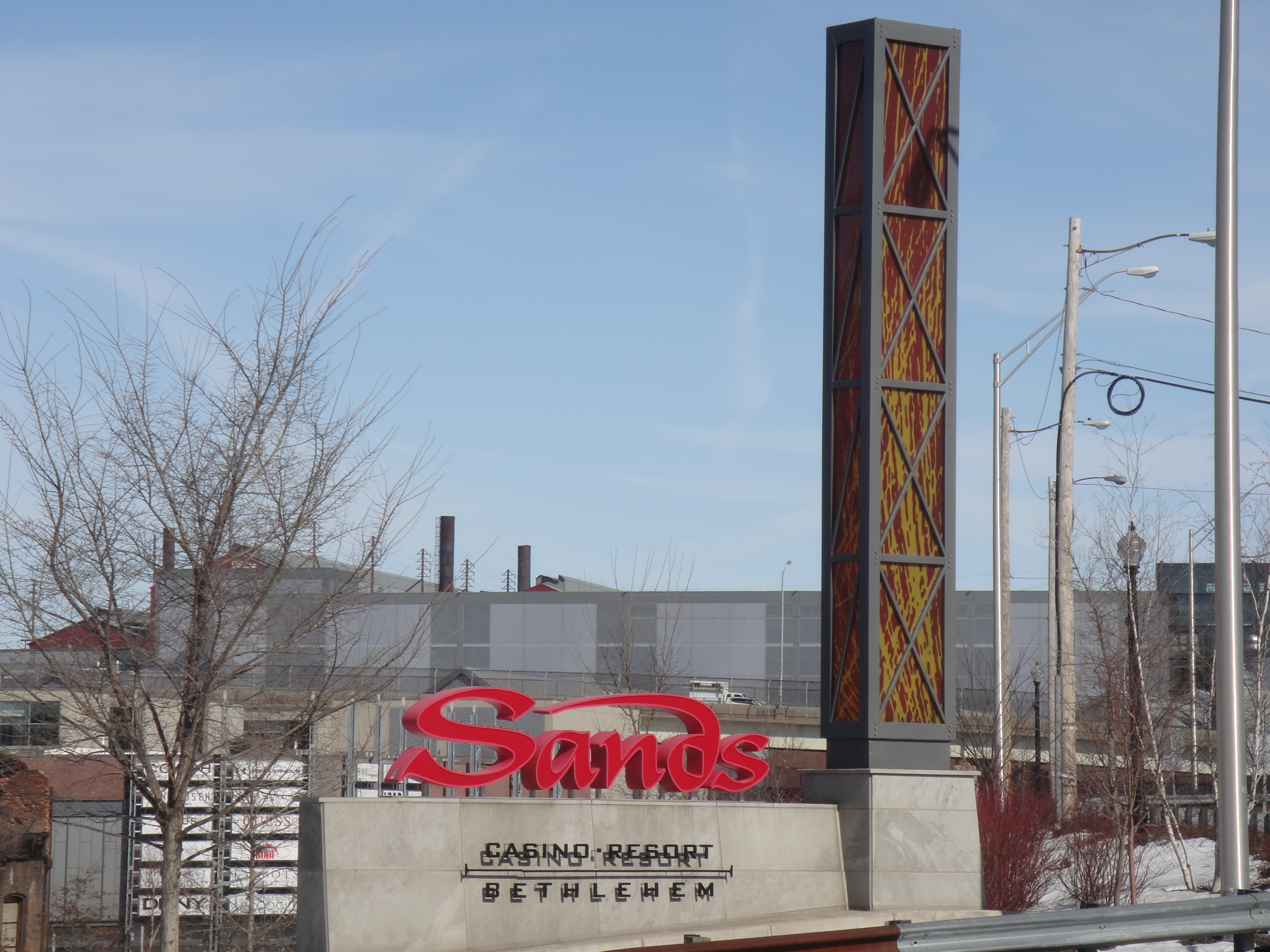 The Sands Casino Resort sign.